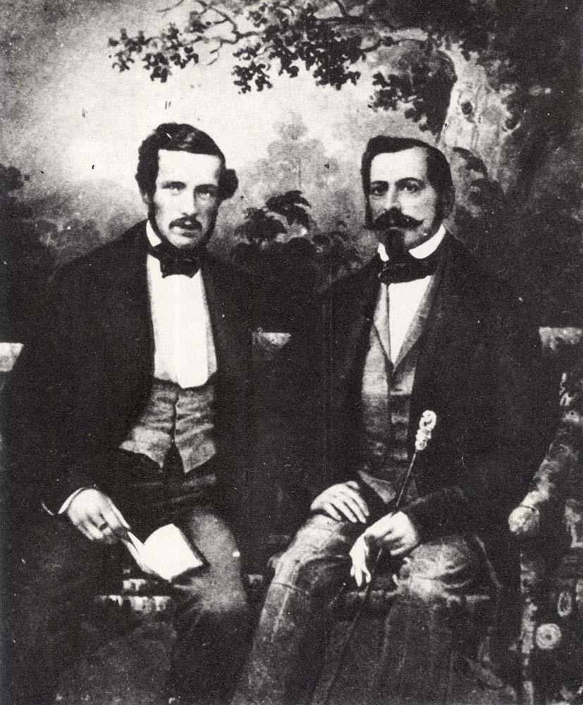 King Oscar I (right) and Prince Gustav of Sweden and Norway